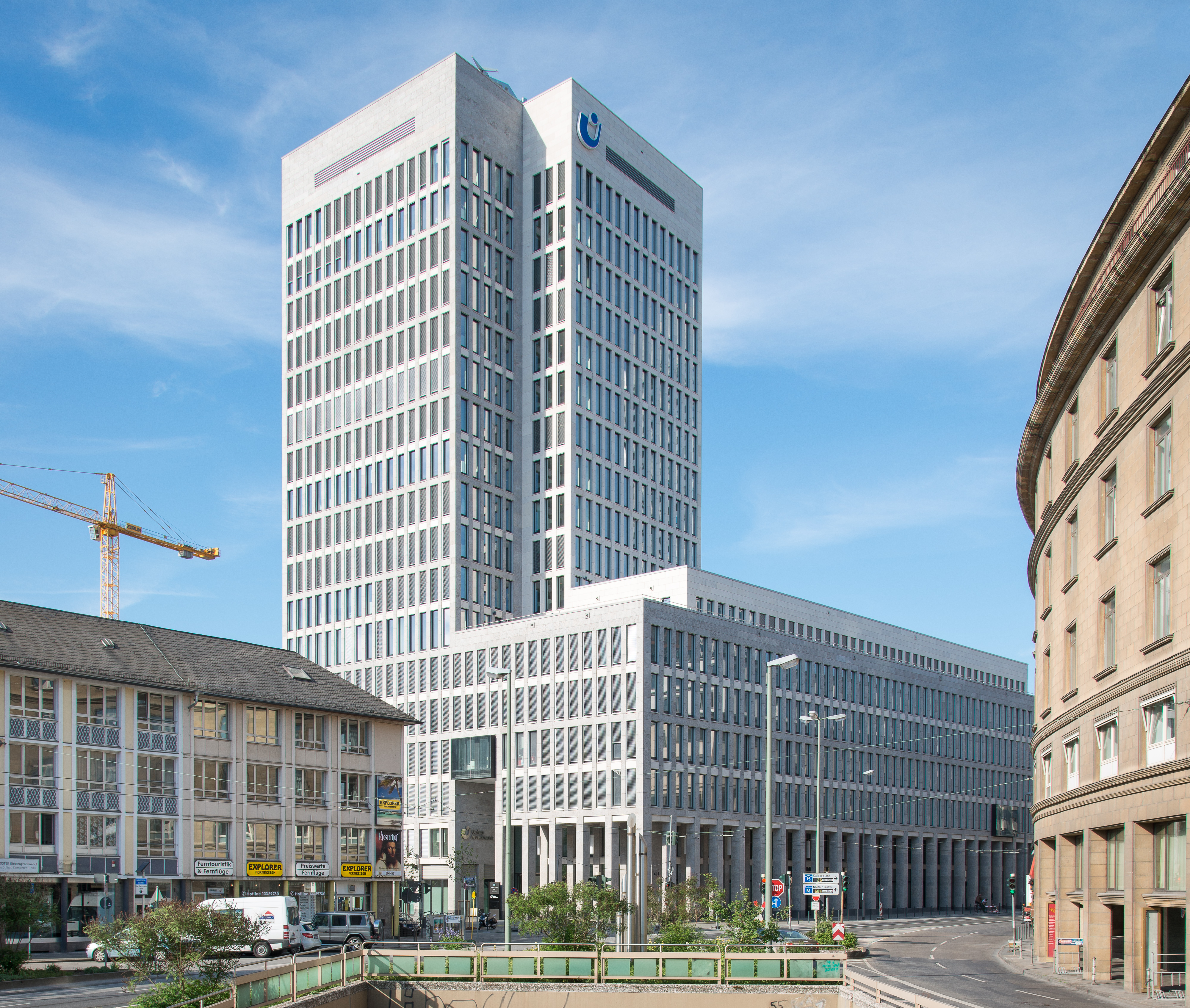 Frankfurt am Main, Porta office tower on MainTor redevelopment site, as seen from East (June 2015).